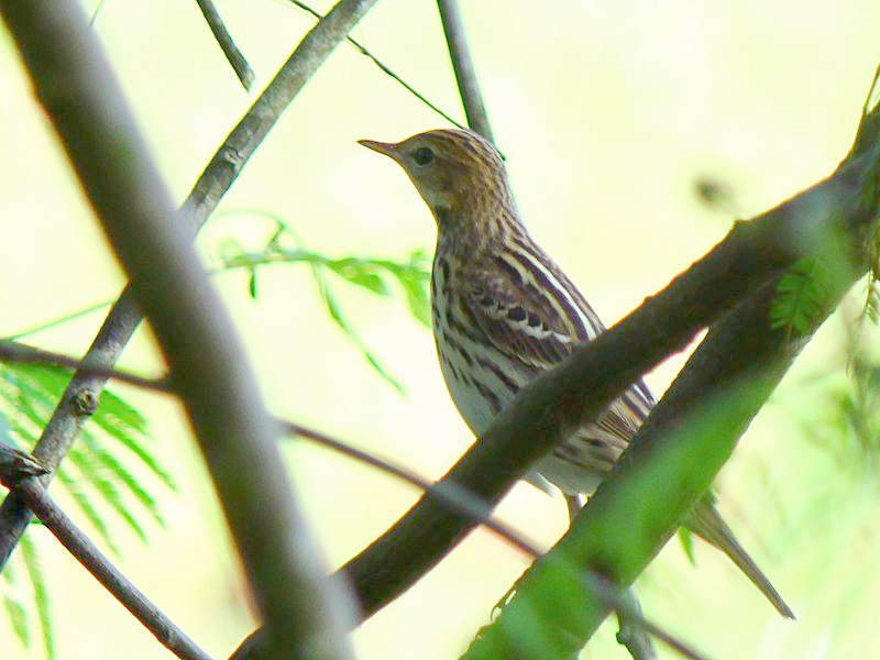 Pechora Pipit (Anthus gustavi gustavi) at Mount Wawo, Tomohon, North SulawesiBahasa Indonesia: Apung petchora (Anthus gustavi gustavi) di Gunung Wawo, Tomohon, Sulawesi Utara